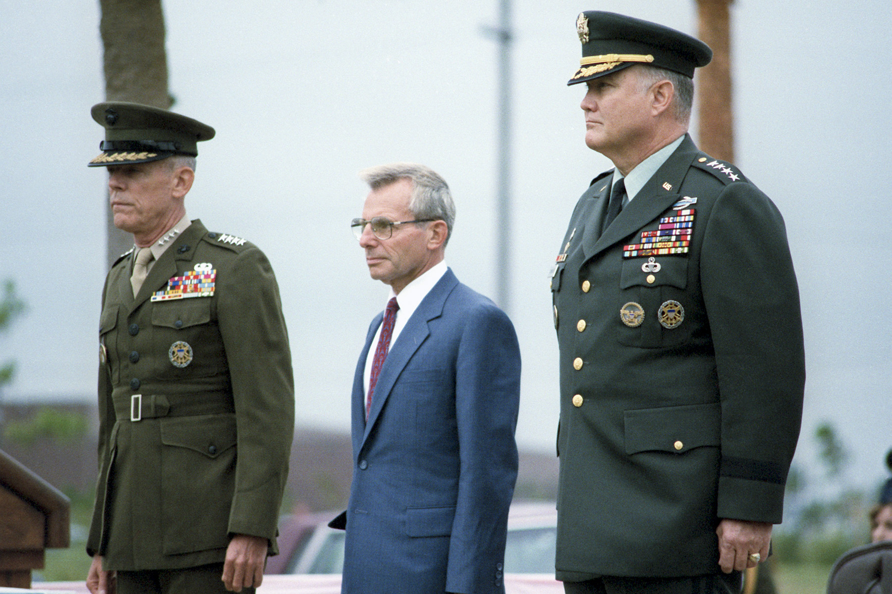 Defense Secretary Frank C. Carlucci, center, transfers the reins of command of U.S. Central Command from U.S. Marine Corps Gen. George B. Crist, left, to Army Gen. H. Norman Schwarzkopf, Nov. 1, 1988. Schwarzkopf was a Vietnam veteran and one of the architects of the western flanking movement that helped to defeat the Iraqi army during the Gulf War in early 1991. As commander of U.S. Centcom, he led the international coalition assembled by then-President George H.W. Bush that expelled Iraqi troops who had invaded Kuwait in August 1990.